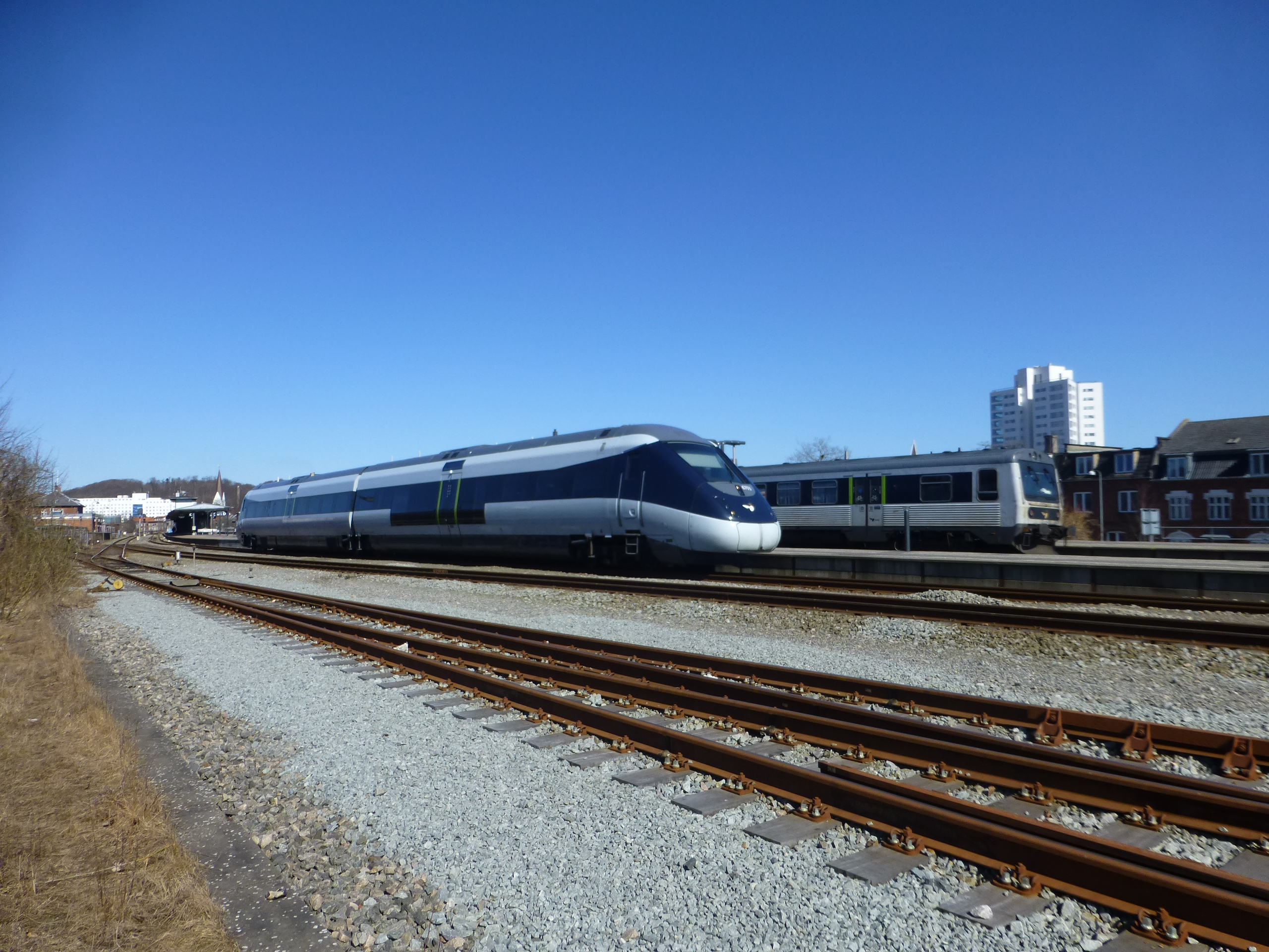 IC2 train 03 at Vejle Station in Denmark.